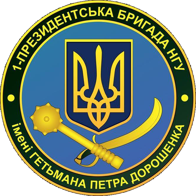 Shoulder sleeve insignia of the 1st Operational Purpose Brigade